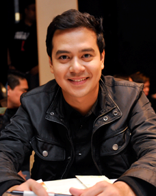 John Lloyd Cruz as photographed by Ronn Tan, April 2010.